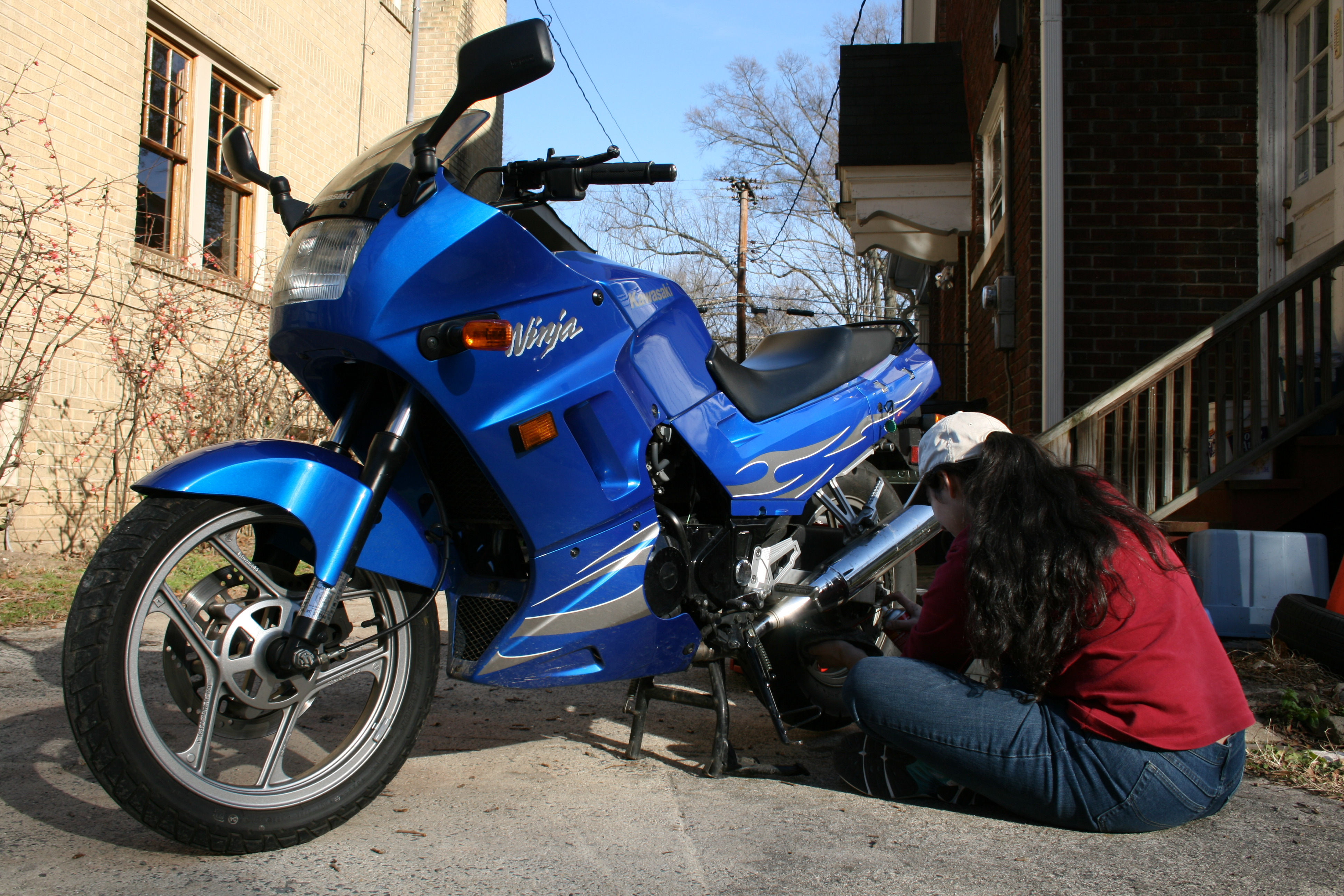 Rider cleaning the drive chain on her 2007 Kawasaki Ninja 250 motorcycle with brake cleaner fluid.